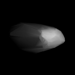 3D convex shape model of 7387 Malbil, computed using light curve inversion techniques. J. Hanuš, J. Ďurech, M. Brož, B. D. Warner (June 2011). "A study of asteroid pole-latitude distribution based on an extended set of shape models derived by the lightcurve inversion method". Astronomy and Astrophysics 530: A134. ISSN 0004-6361. arXiv